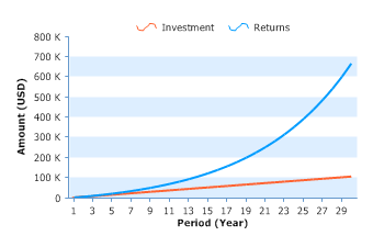 Periodic Deposit Graph